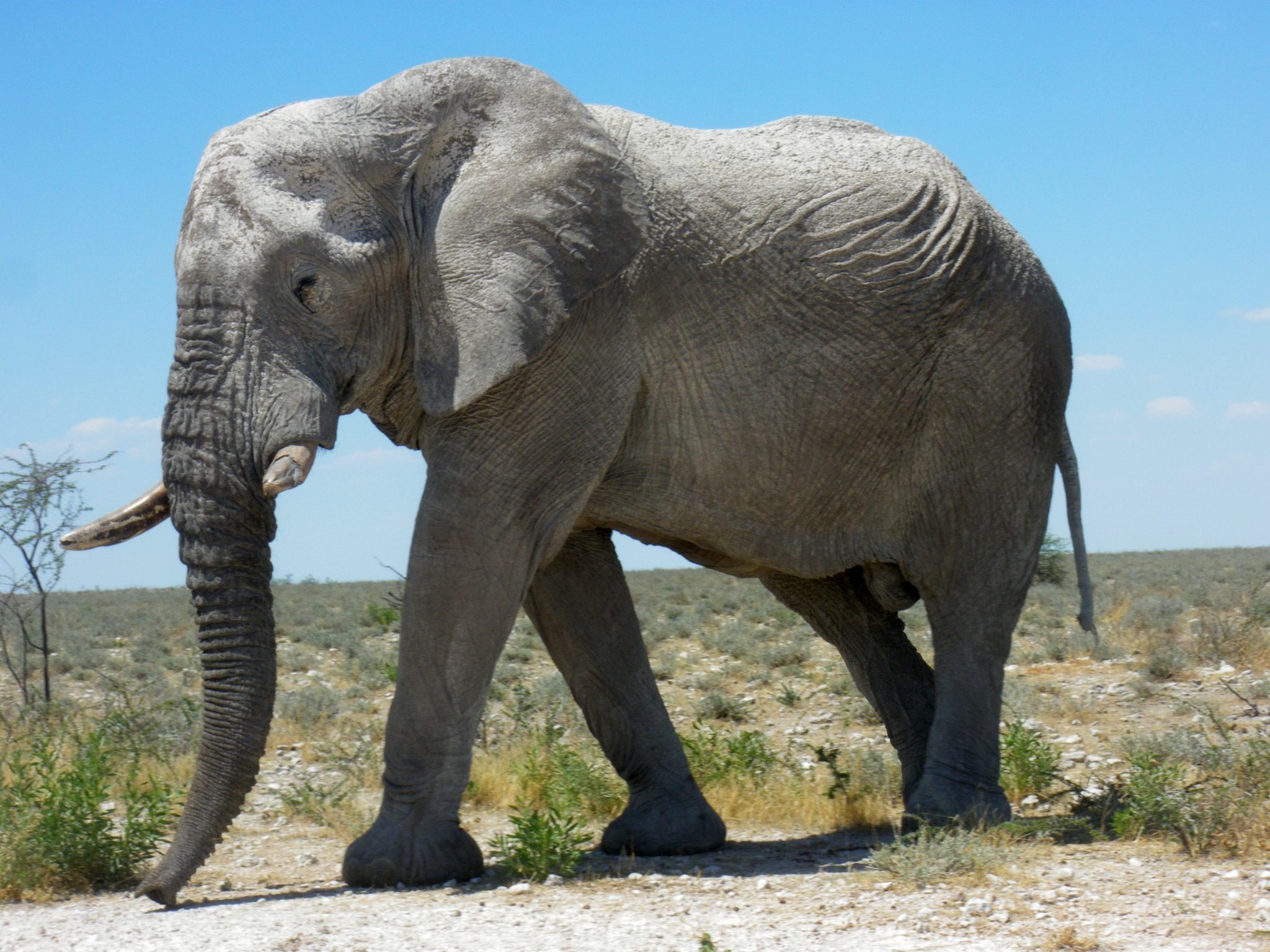 Elephants at Etosha National Park, Namibia